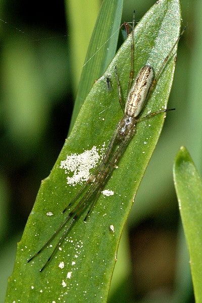 Tetragnatha montana from Commanster, Belgian High Ardennes .